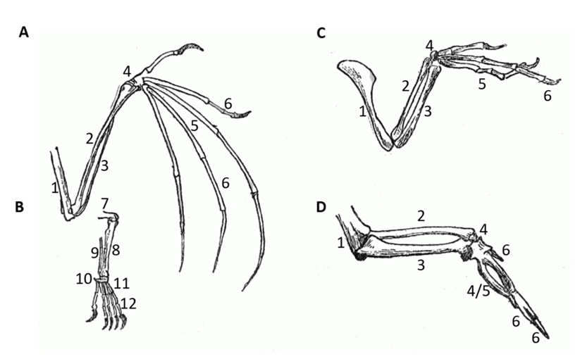 Evolution of limbs into wings